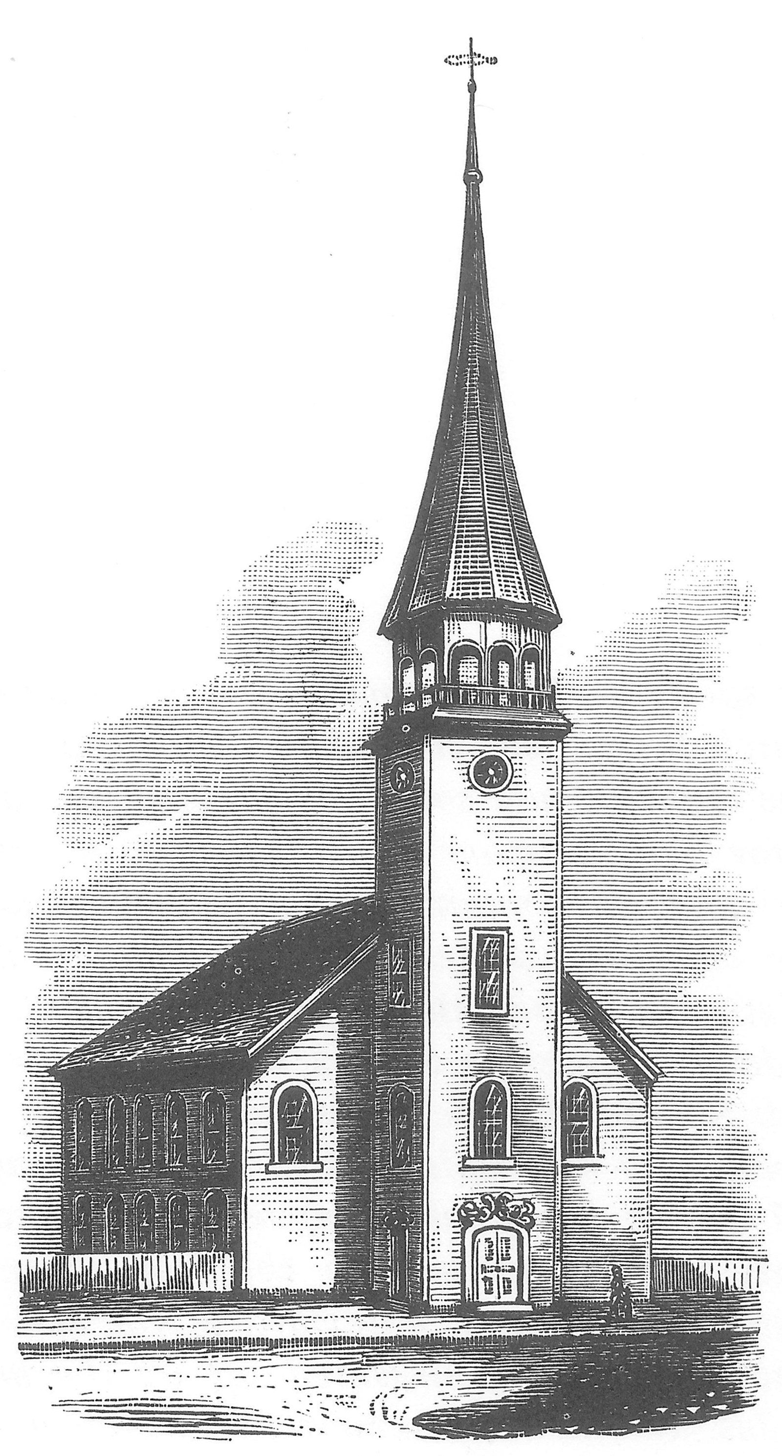 A drawing of the first Trinity Episcopal Church, New Haven, Connecticut, USA, built 1752-1753. The image is taken from Jarvis, Lucy, Sketches of Church Life in Colonial Connecticut, Tuttle, Morehouse & Taylor Company, 1902. Originally for Trinity Church on the Green article.